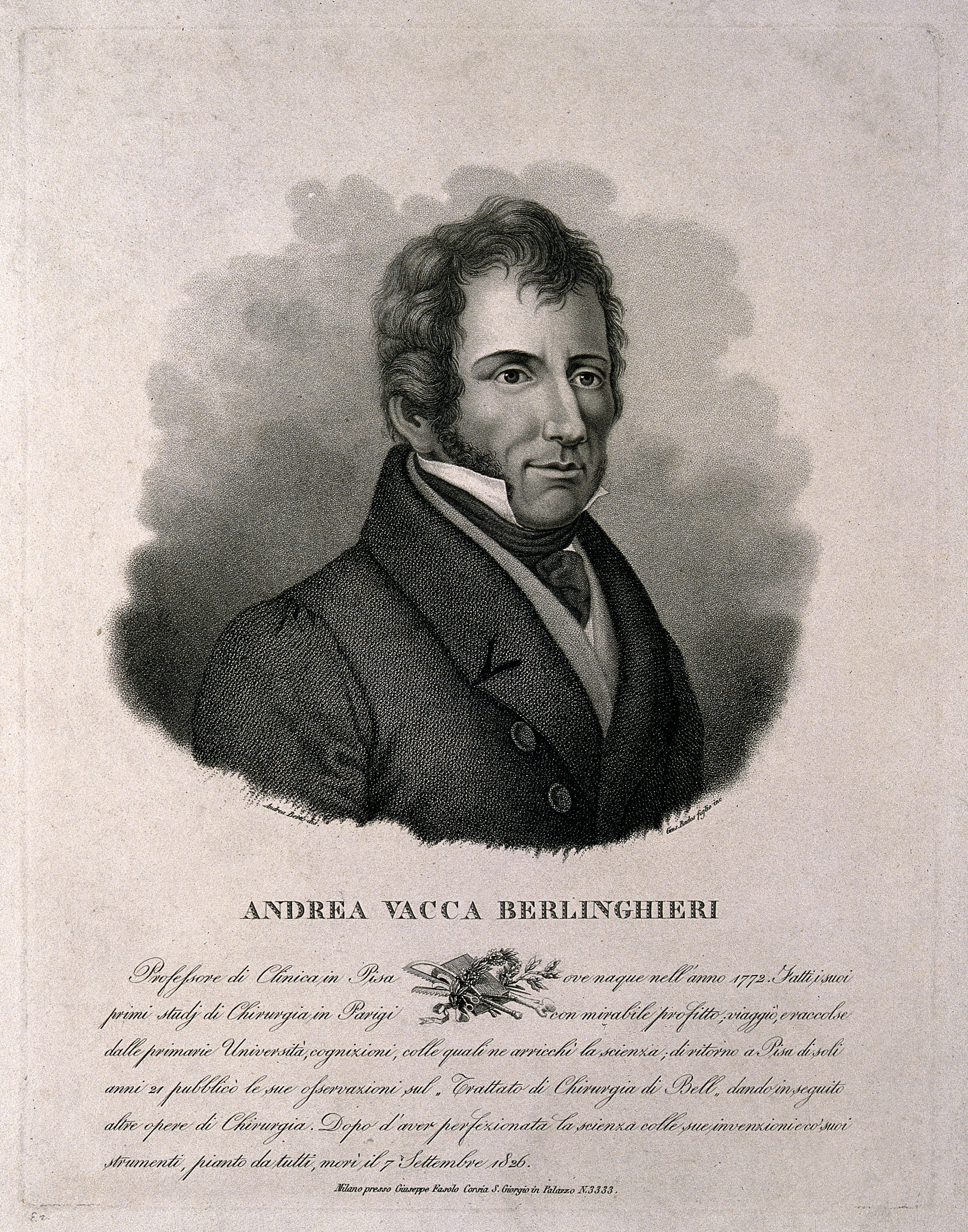 Andrea Vacca Berlinghieri. Engraving by G. Rados, junior, after A. Berti. Iconographic Collections Keywords: intaglio prints; portrait prints; Andrea Vaccà Berlinghieri; vaccaa berlinghieri, andrea